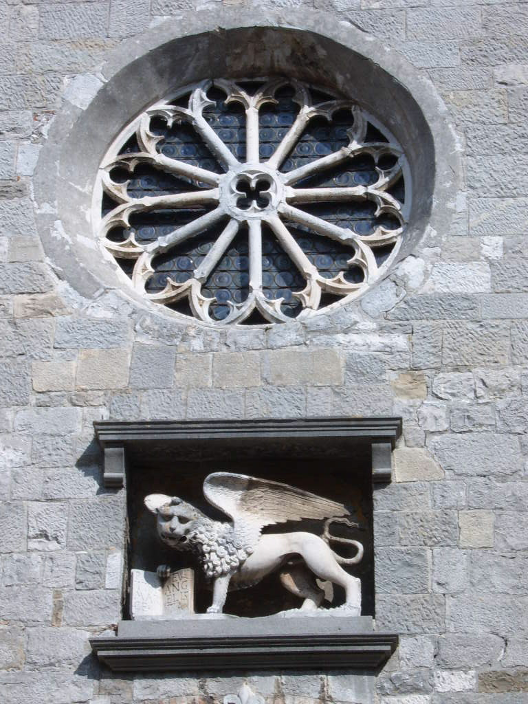 Facade of the church of Blessed Virgin Mary's Birth, Labin (Croatia) Date: 08/01/2005